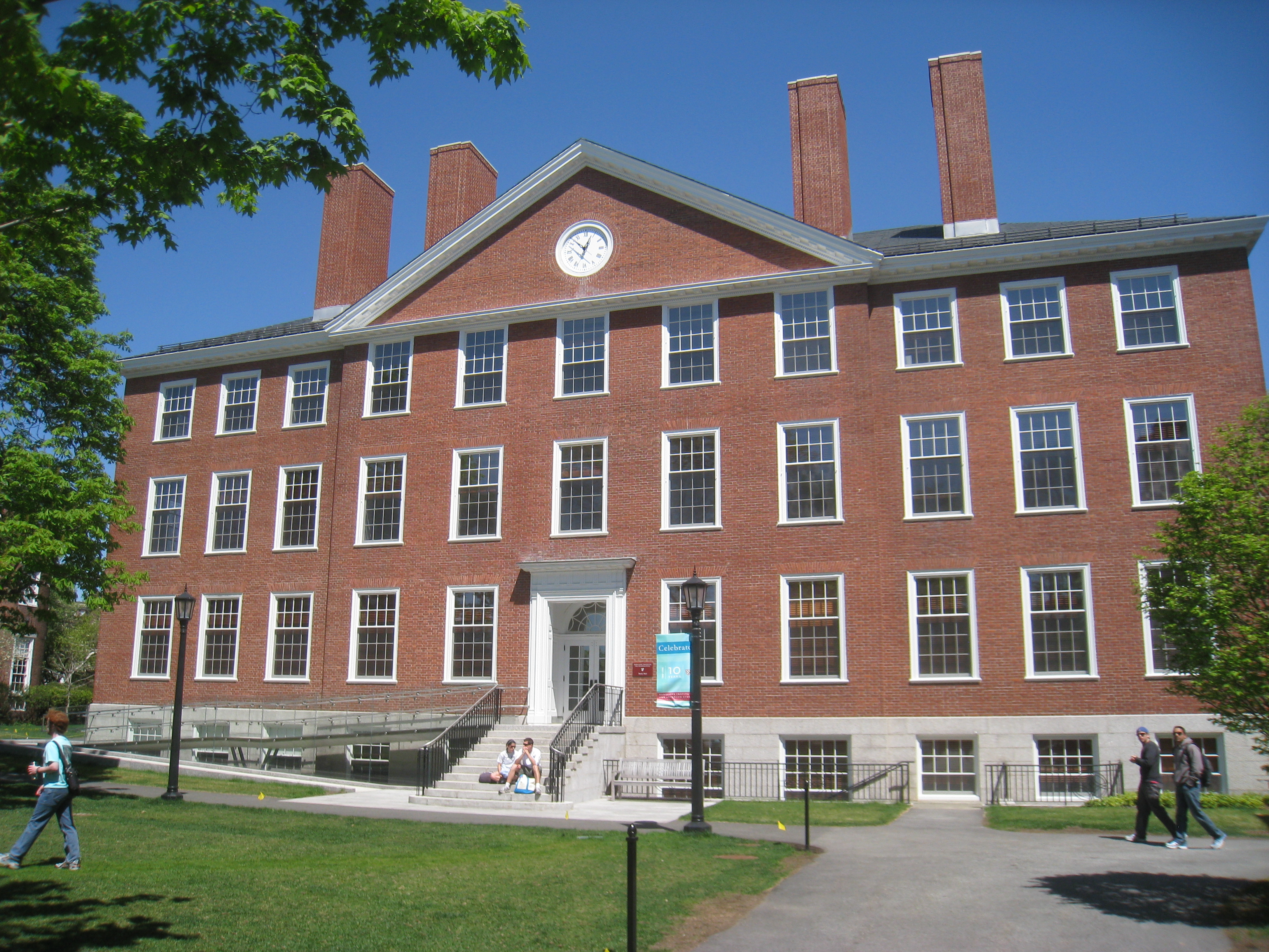 Byerly Hall, Radcliffe Yard, Harvard University, Cambridge, Massachusetts, USA.